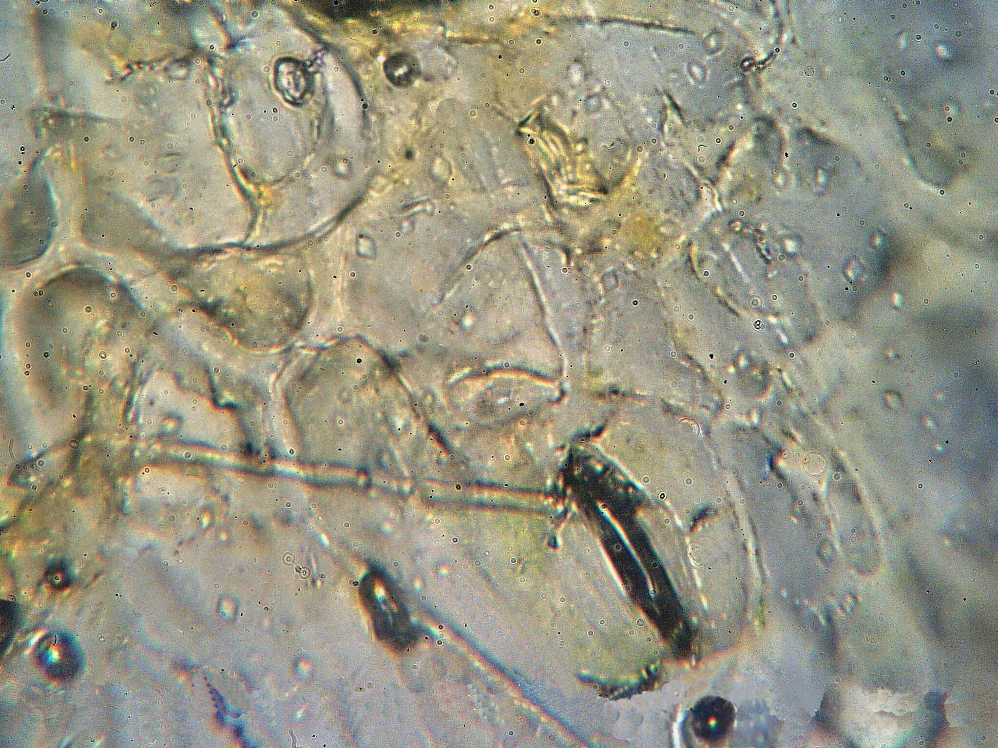 Microscope image of rust fungus attacking stoma 1600x magnification